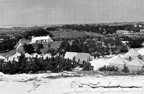 "B" Battery, 57th Regiment United States Army Coast Artillery Corps, at Ackermann's Hill (also called Turtle Hill), in the British Army's Warwick Camp, in Bermuda during the Second World War.